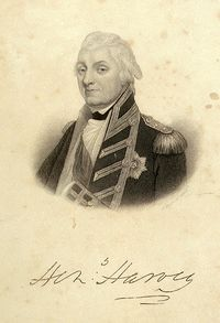 A portrait of Admiral Sir Henry Harvey engraved c. 1810. Currently held in the collections of the National Maritime Museum, Greenwich